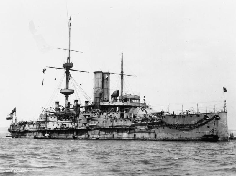 Ships of the Royal Navy HMS BARFLEUR